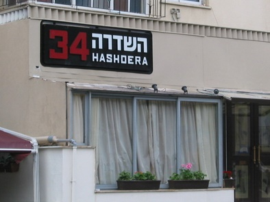 kind of misspelling in a cafe in Tel Aviv